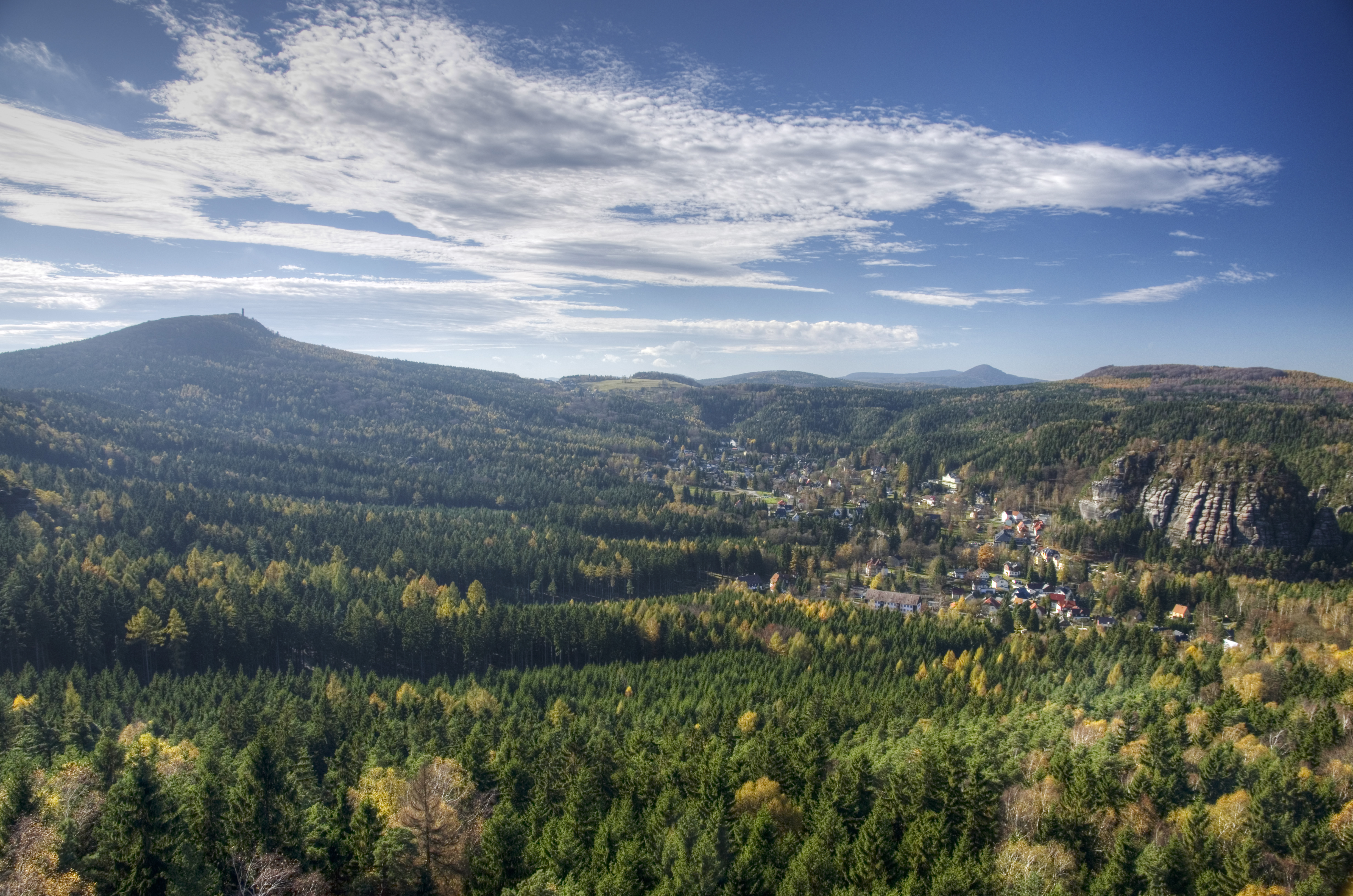 The prospect of Oybin village and Lusatian Mountains from Scharfenstein